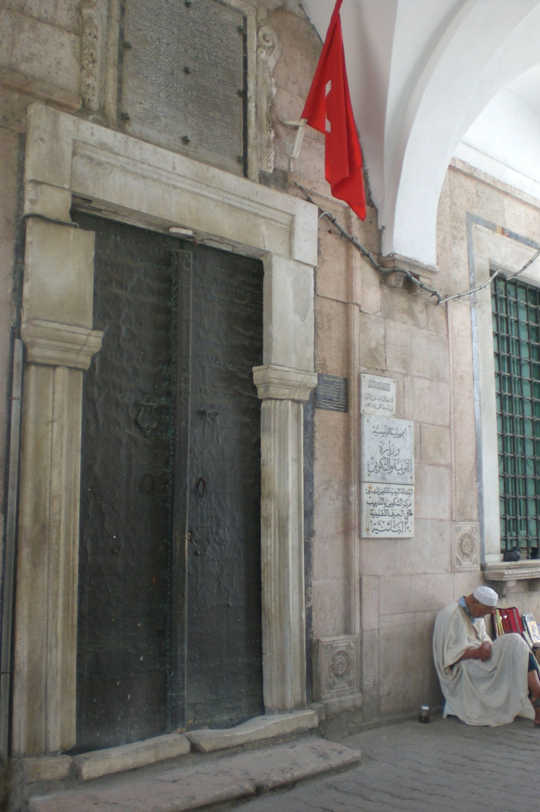 Medersa Bachiya in Tunis